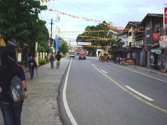 View of J.P. Rizal Street at Centro Poblacion, Barangay 4, Nasipit, Agusan del Norte